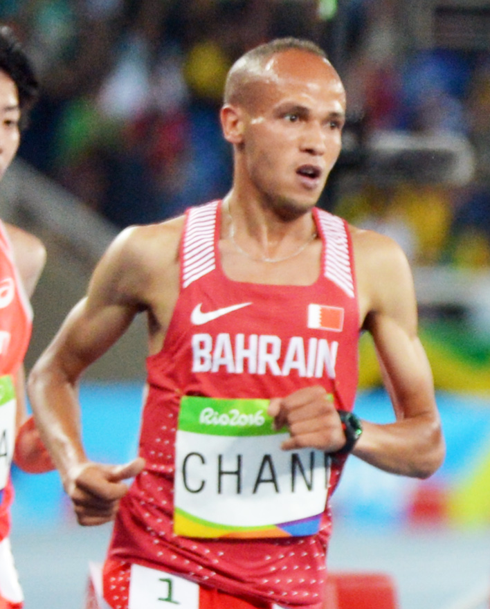 Spcs. Leonard Korir and Shadrack Kipchichir finish 14th and 19th respectively in the men's 3,000-meter run Aug. 13 at the 2016 Rio Olympic Games in Rio de Janeiro. Both Soldiers in the U.S. Army World Class Athlete Program turned in their season-best performaces, with Korir finishing in 27 minutes, 58.65 seconds and Kipchirchir clocked at 27:58.32. Mohamed Farah of Great Britain successfully defended his Olympic crown by winning the race in 27:05.17. Paul Kipnetech Tanui of Kenya took the silver in 27:05.64, and Tamirat Tola of Ethiopia claimed the bronze in 27:06.27.